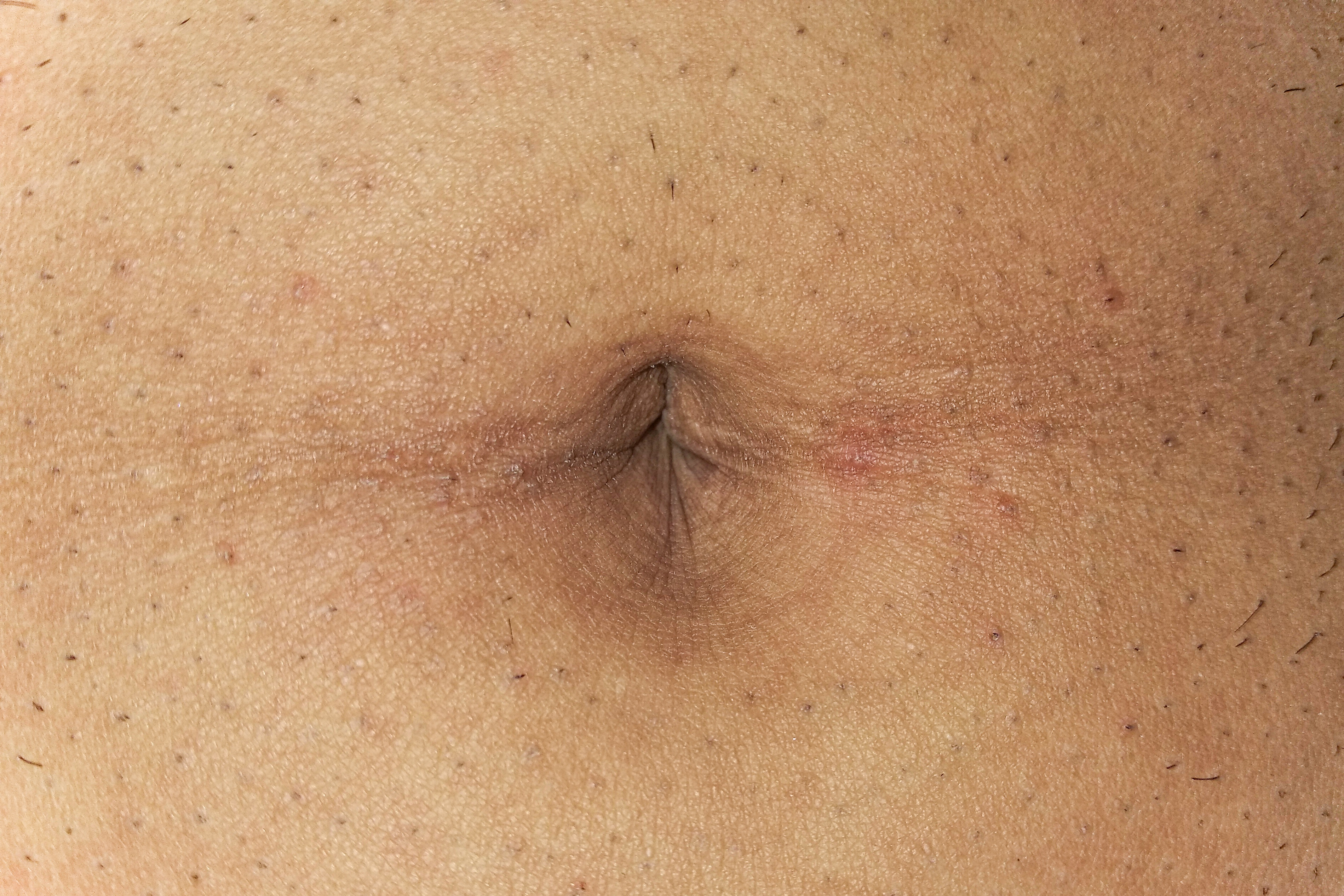 The navel is a flat hollow or protruding scar in the abdomen.